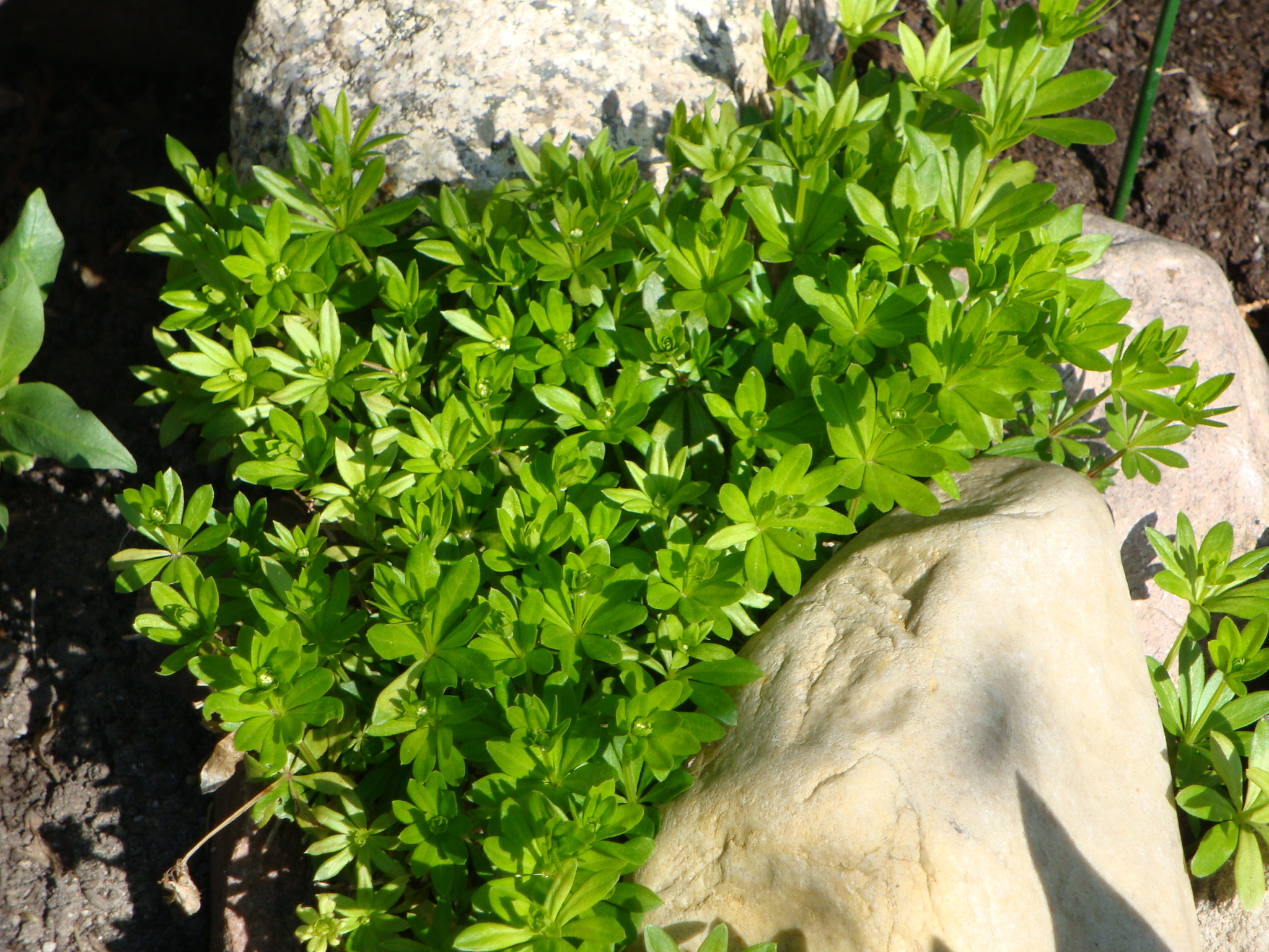 Galium odoratum in the garden.